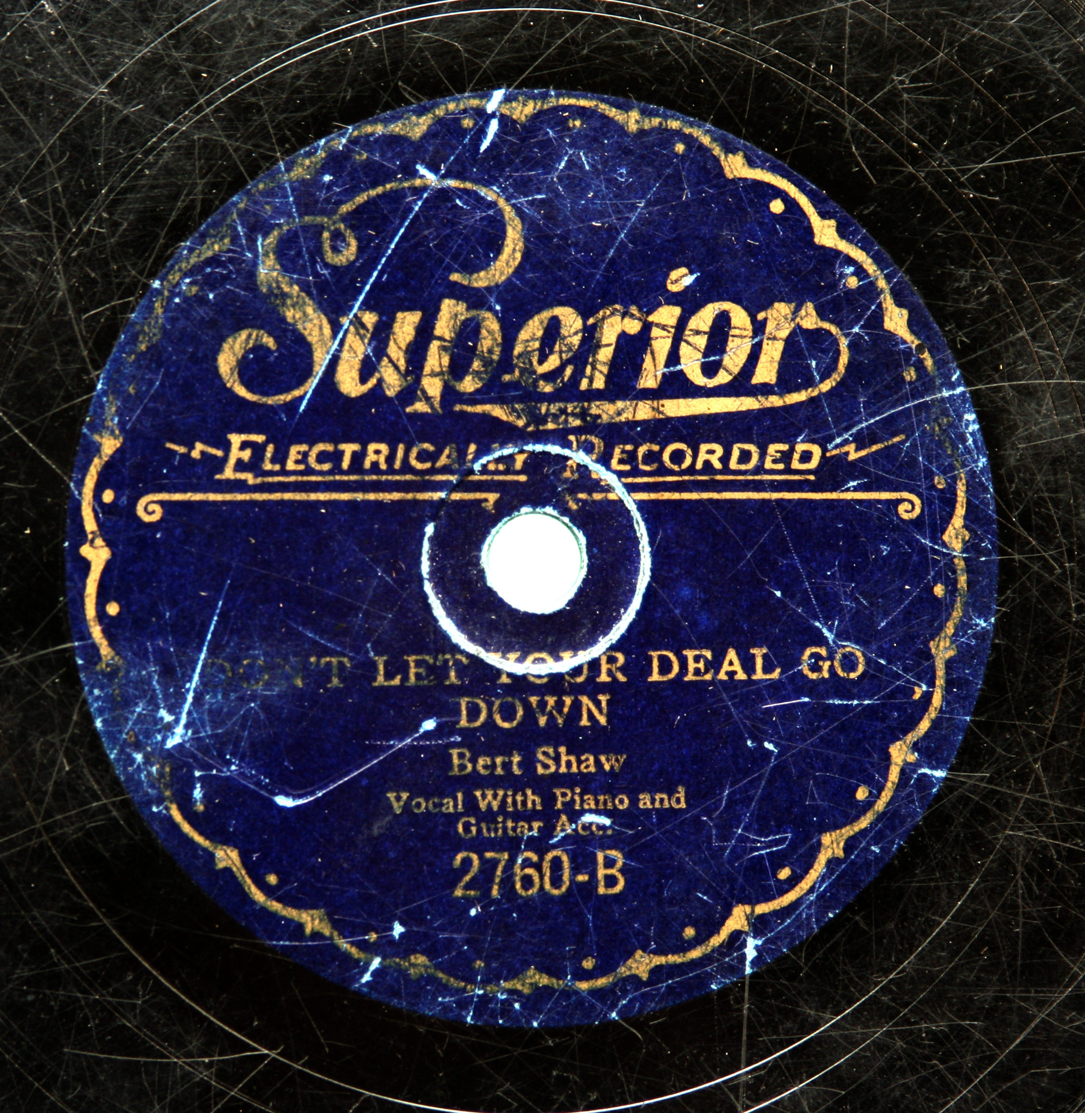 Don't Let Your Deal Go Down by Bert Shaw, Superior 1932.